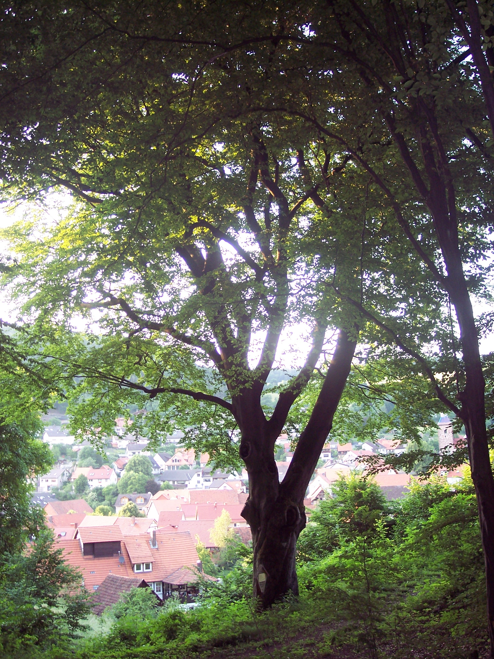 Ecker tree (Fagus sylvatica about 700 years old) in Datterode